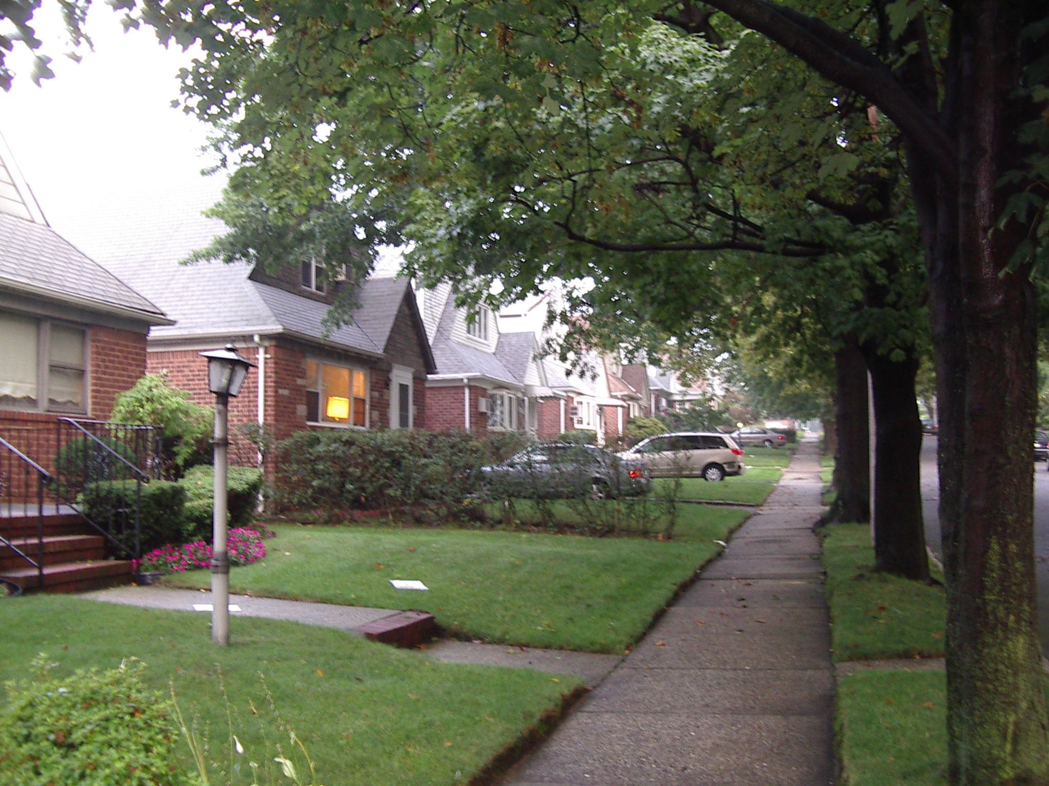 A typical residential street in Bayside, Queens. Looks like it could be 43rd Ave, east of Bell Blvd.